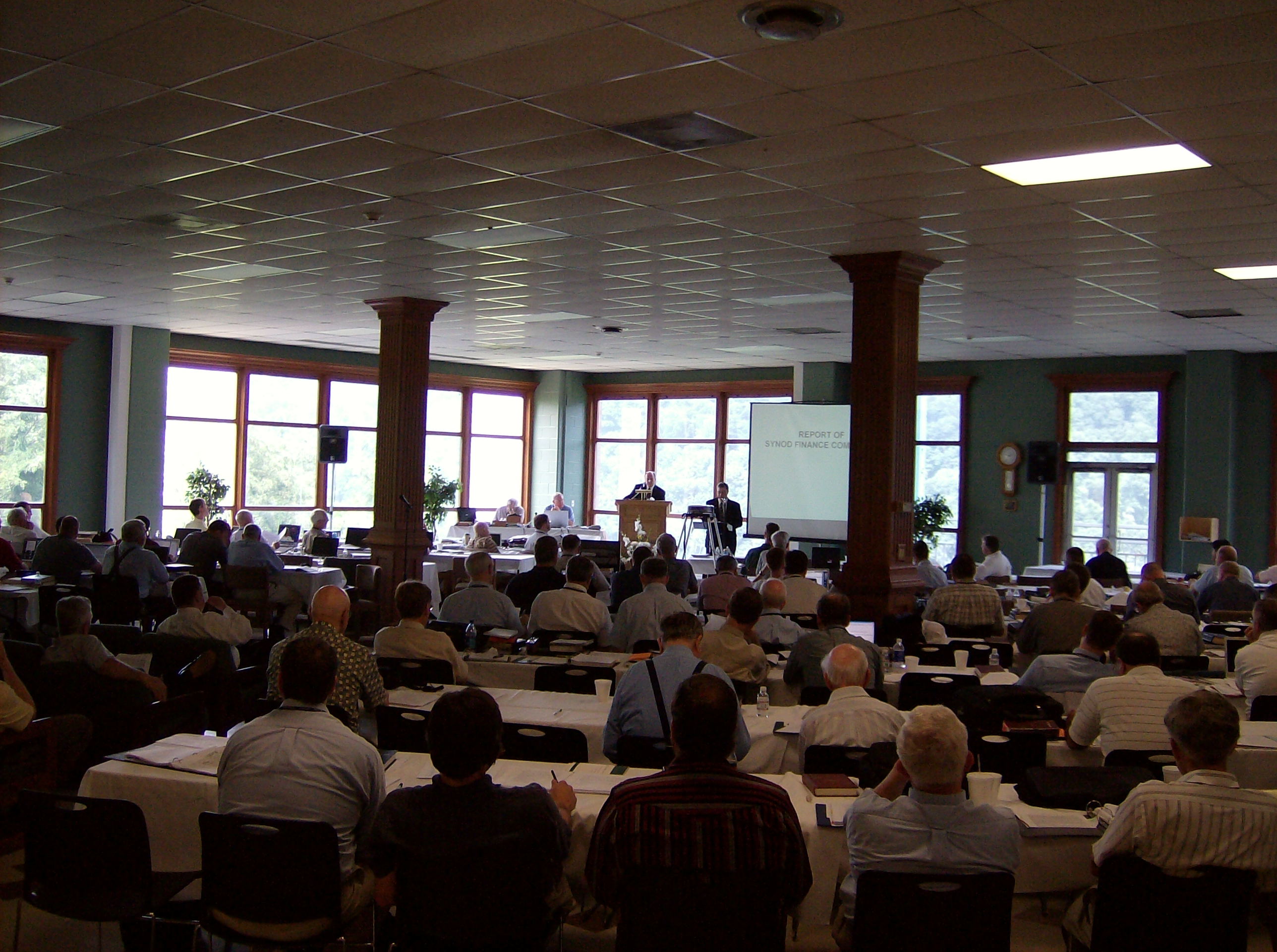 Delegates during the meeting of the 176th Synod of the Reformed Presbyterian Church of North America, held in the Skye Lounge of Geneva College in Beaver Falls, Pennsylvania, United States.